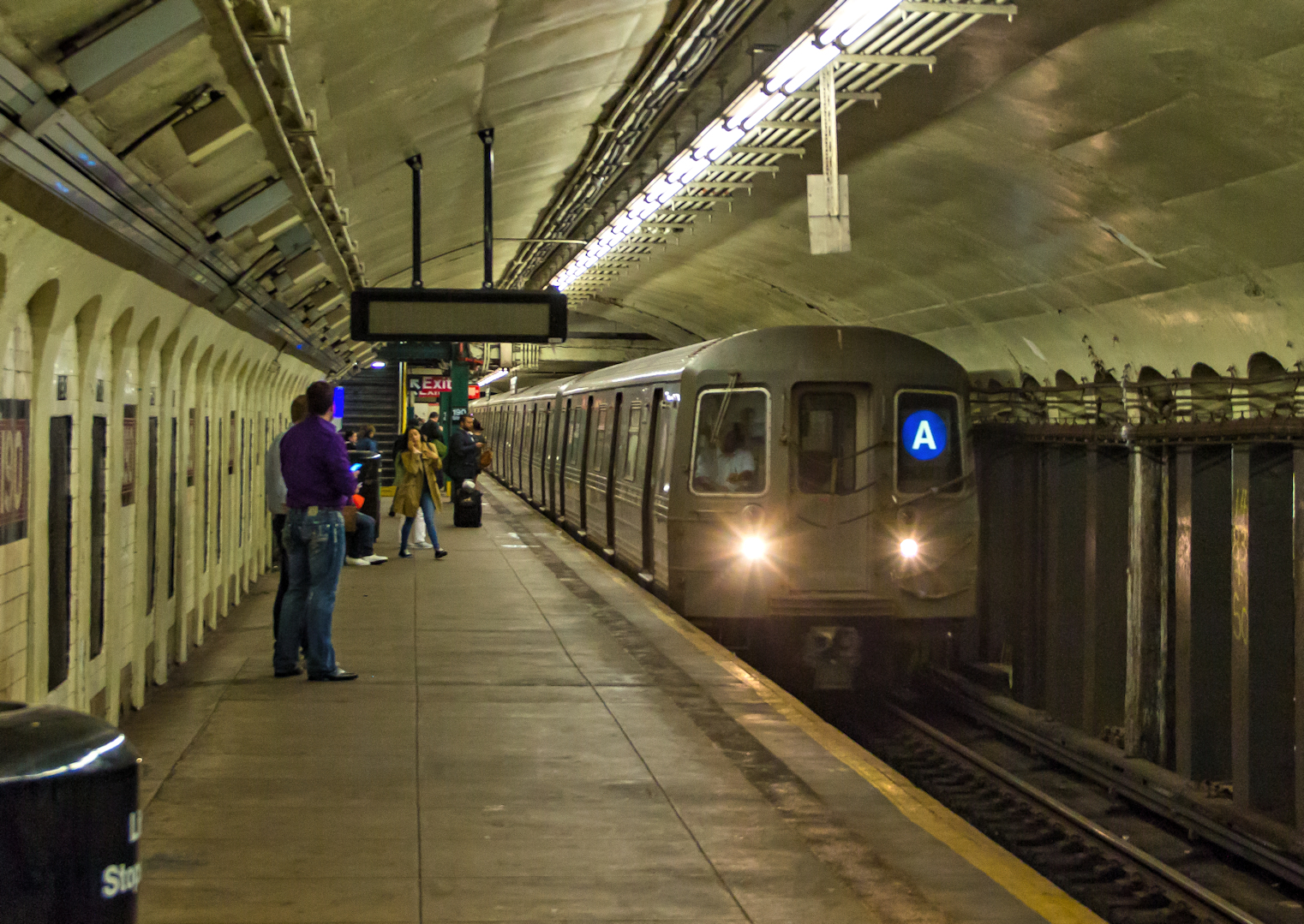 NYCT Subway - Westinghouse R-68 A Train entering the IND 190th Street Subway station.